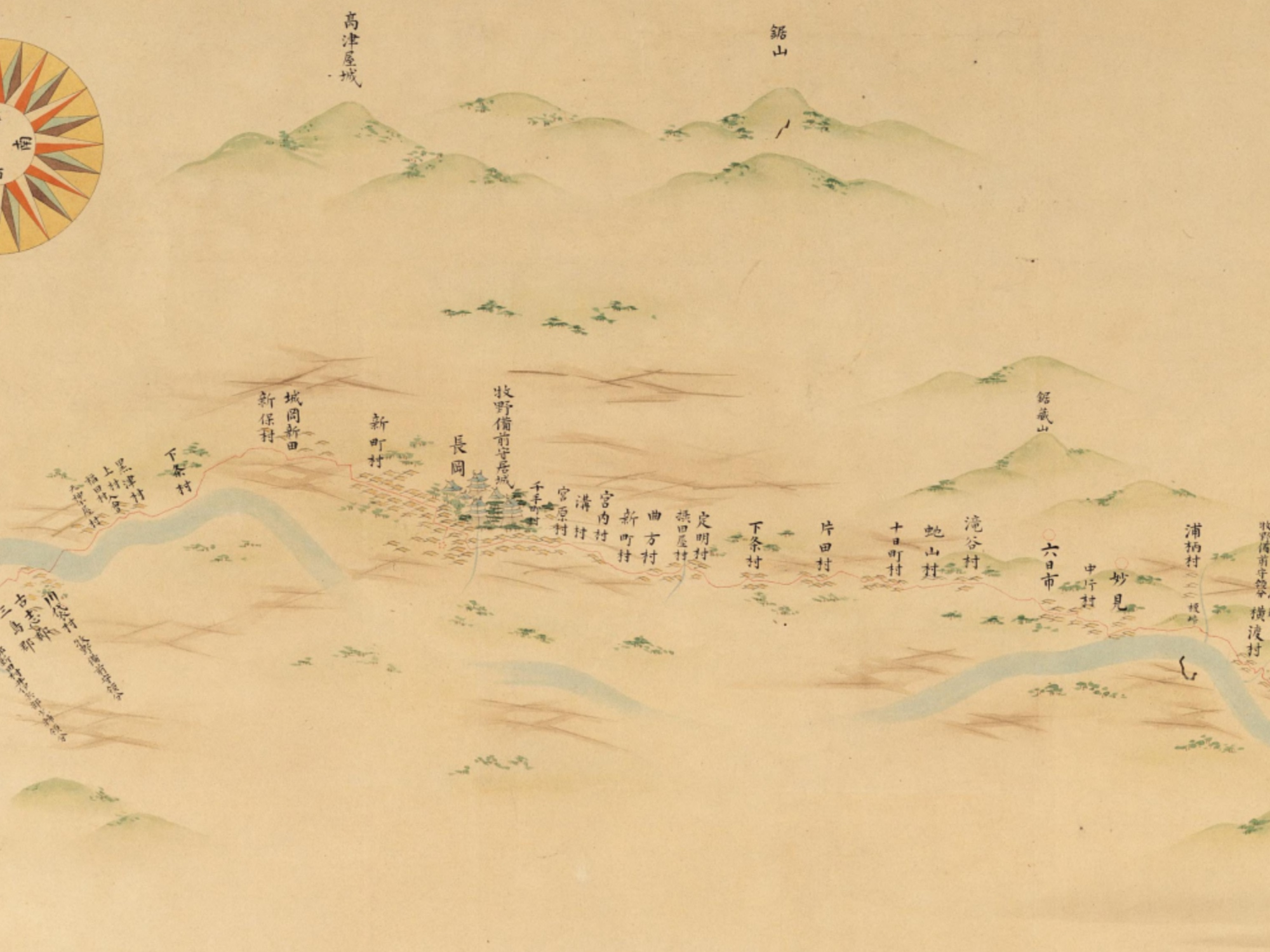 Nagaoka area from "Dai Nihon Enkai Yochi Zenzu" No.76 Echigo (Echigo, Tokimizu, Nagaoka, and Katamachi)